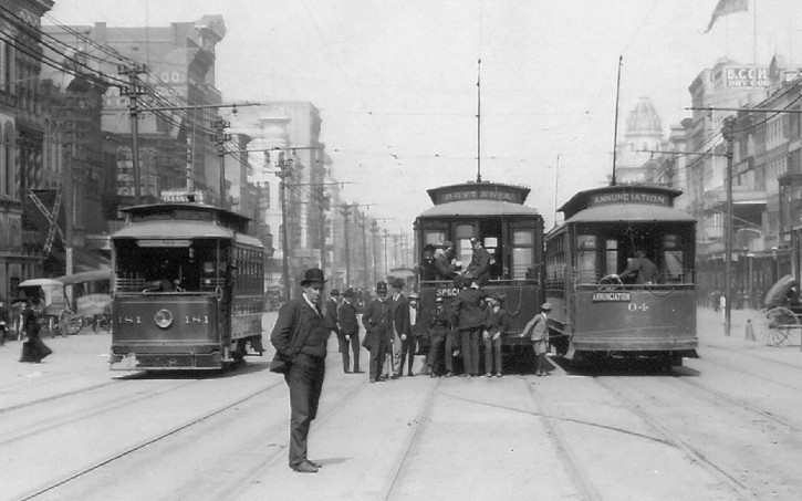 New Orleans, early years of 20th century. Canal Street, about halfway between the intersections Magazine and that of Camp, looking lakewards along the neutral ground. Intersection with Camp Street visible at left; Chartres Street at right. Three electric streetcars are on the neutral ground, the route signs of two are visible, showing "Prytania" Street line and "Annunciation" Street line. A small group of men and boys standing around, including a police officer.